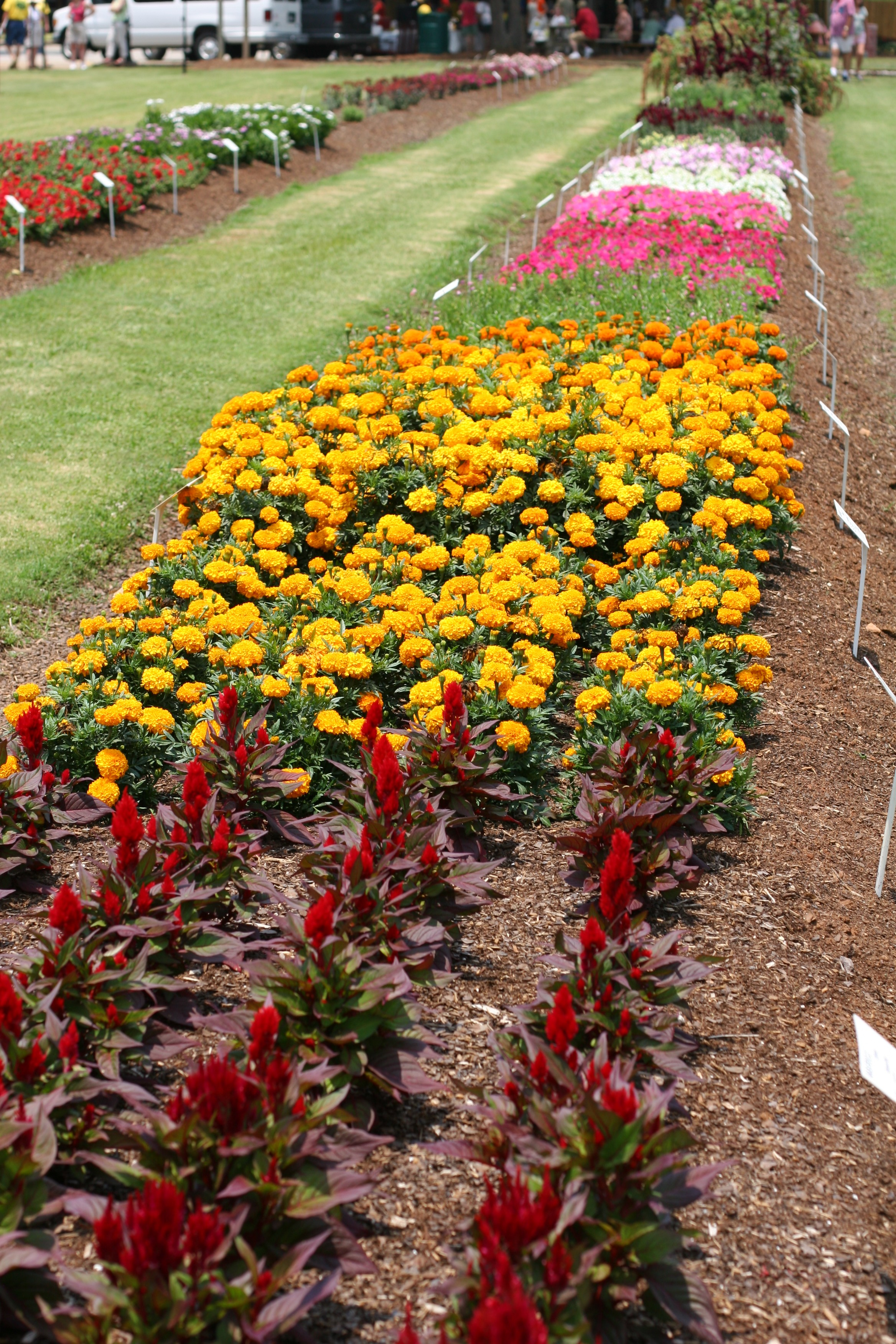 Example of a row in a formal trial garden at Park Seed Company